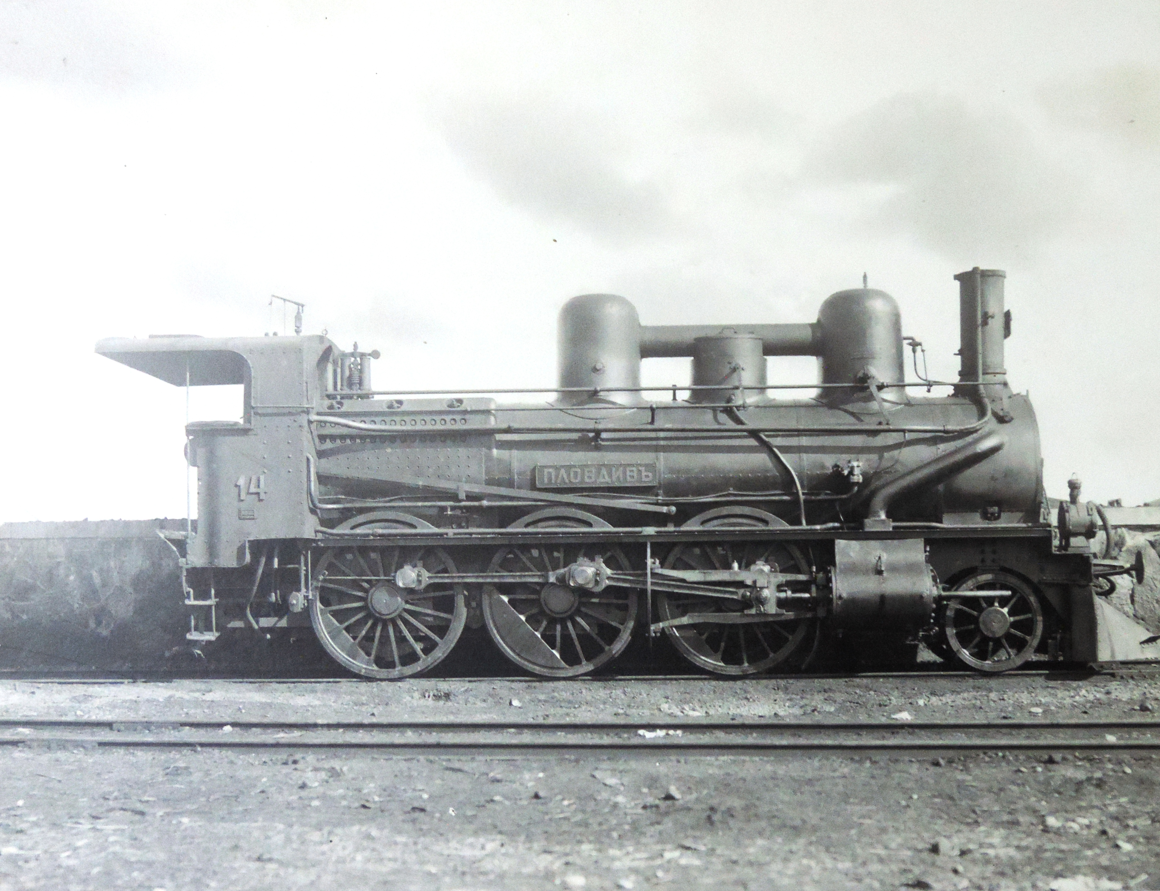 Steam locomotive of BDŽ